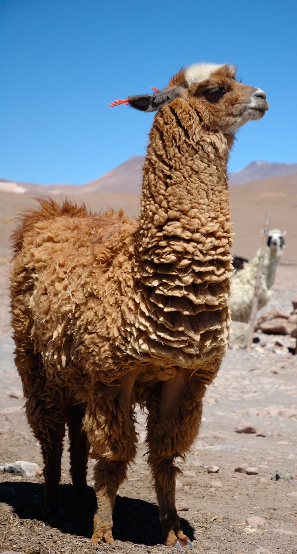 Picture taken in the most southern part of Bolivia, near the borders with Chile and Argentina.